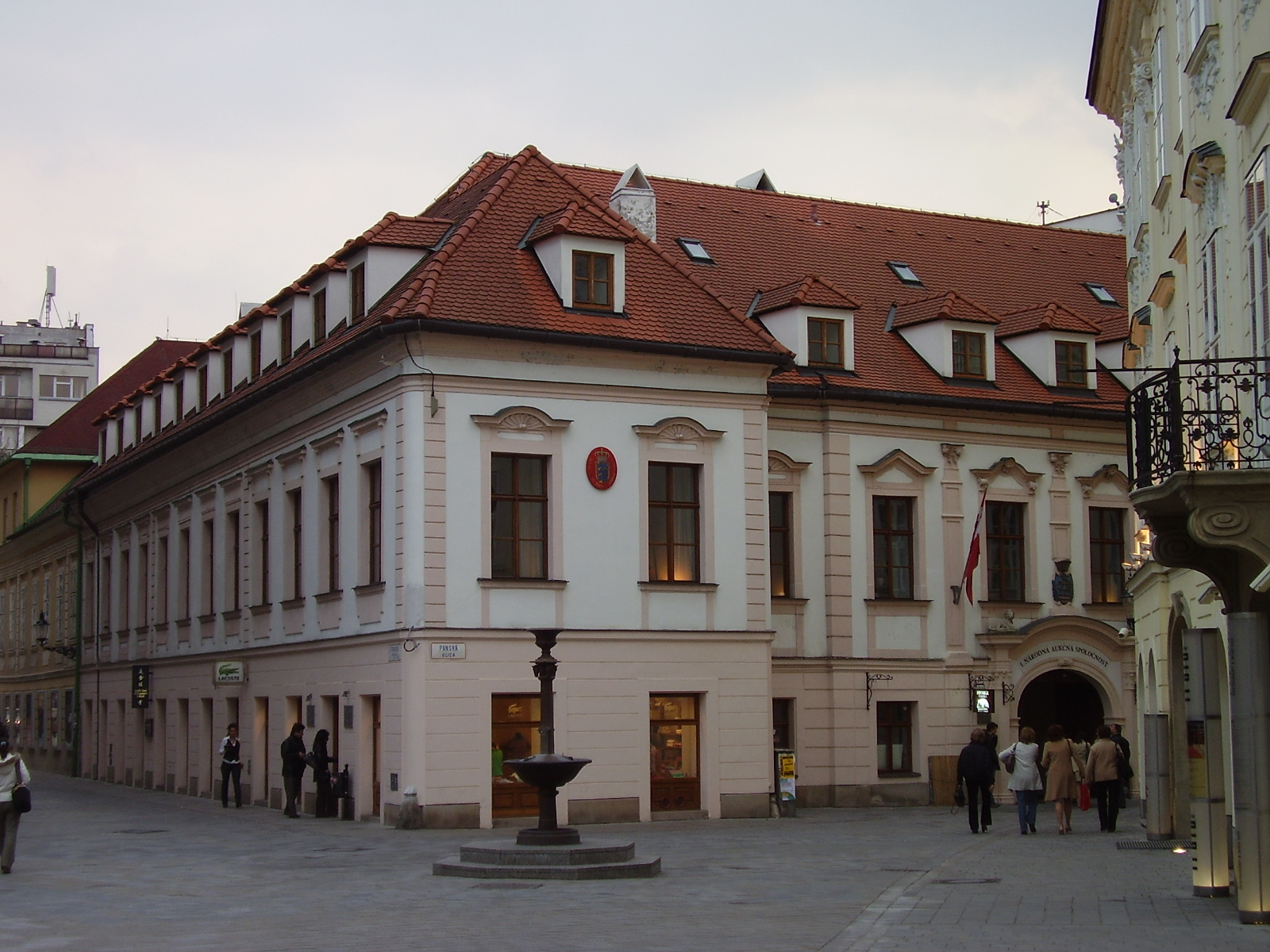 Bratislava city centre